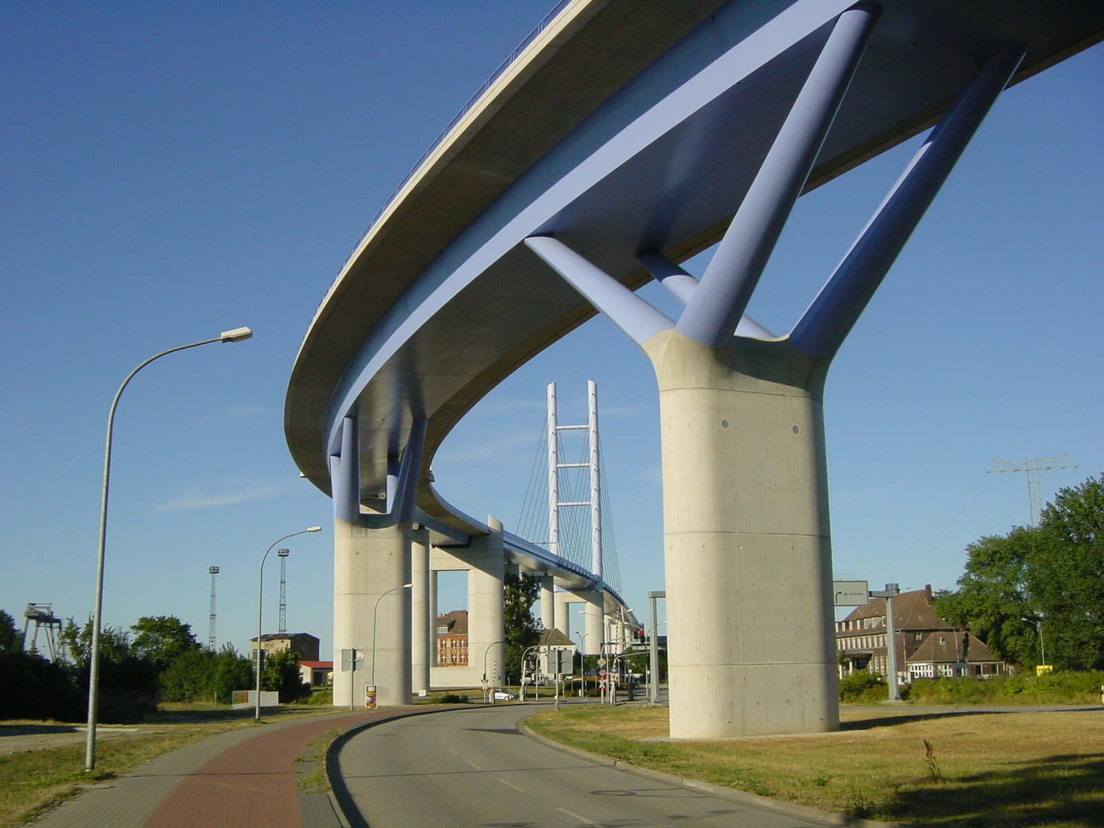 new Rügen bridge, Stralsund, Germany